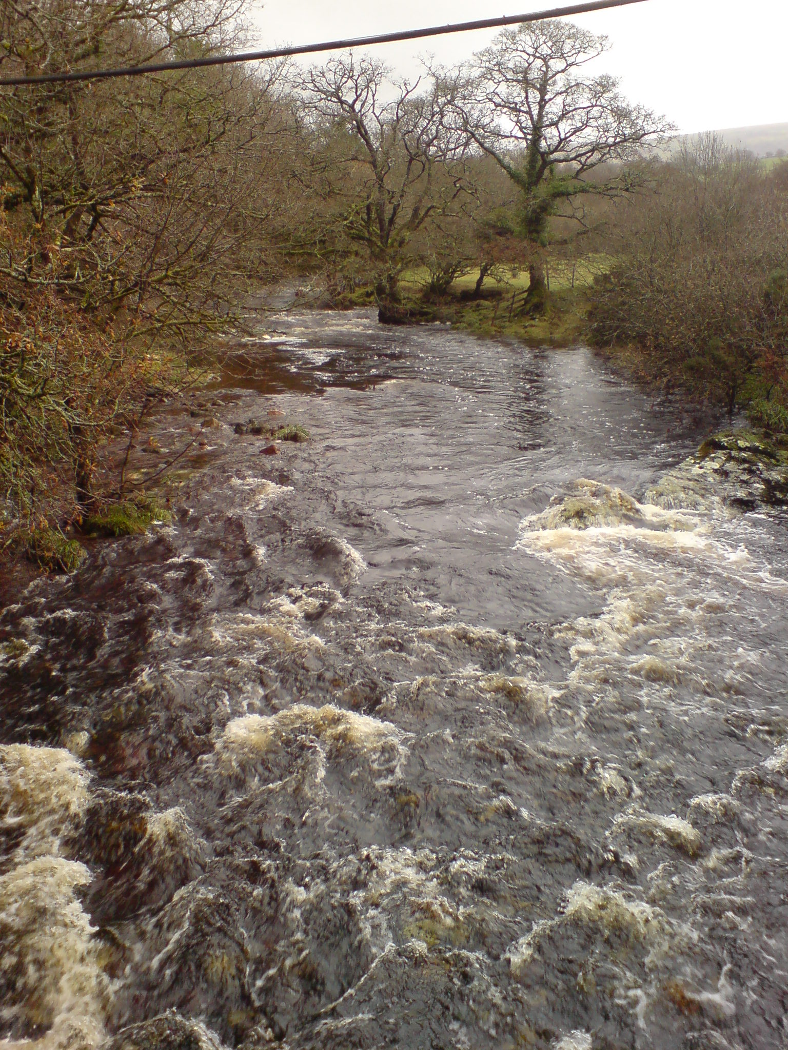 Author: Jamsta